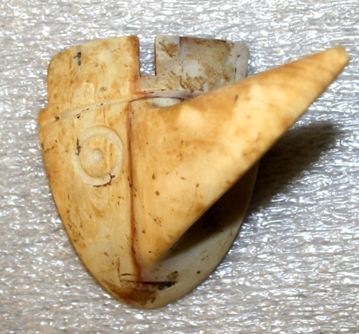 Long-nosed god maskette, marine shell, grave good excavated from the Yokem Mound Group, near Rockport, in Pike County, Illinois, now in the collection of the National Museum of the American Indian